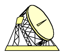 Sketch of Jodrell Bank radiotelescope by James Dignan (User:Grutness)